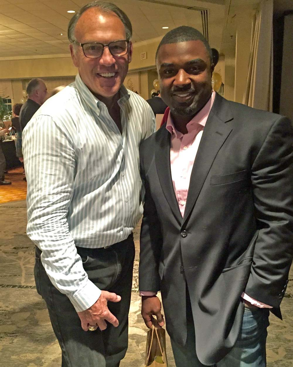 Kevin Reilly, NFL Alumni